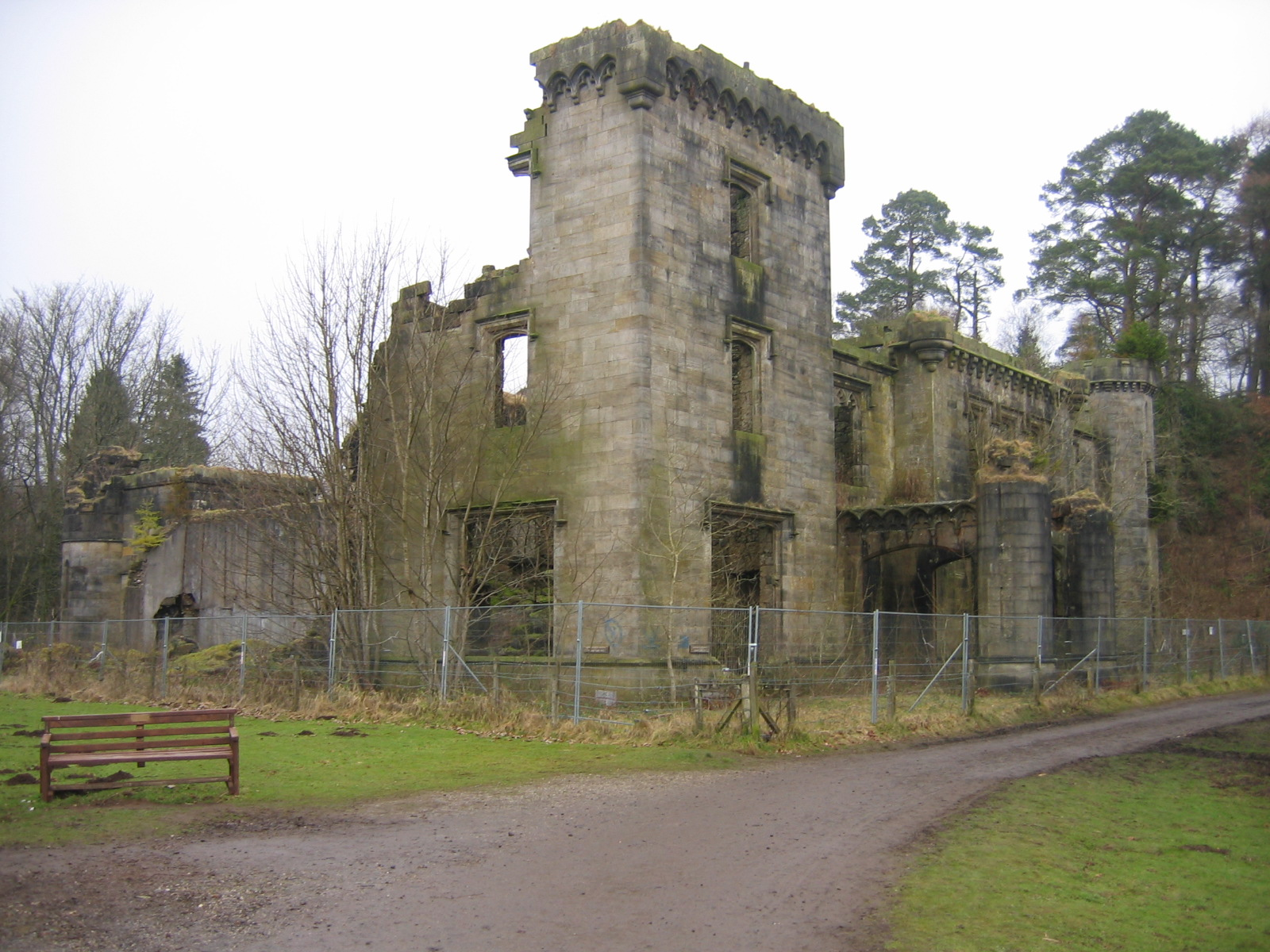 Ruins of Craigend Castle, Mugdock Country Park, near Milngavie, Scotland.